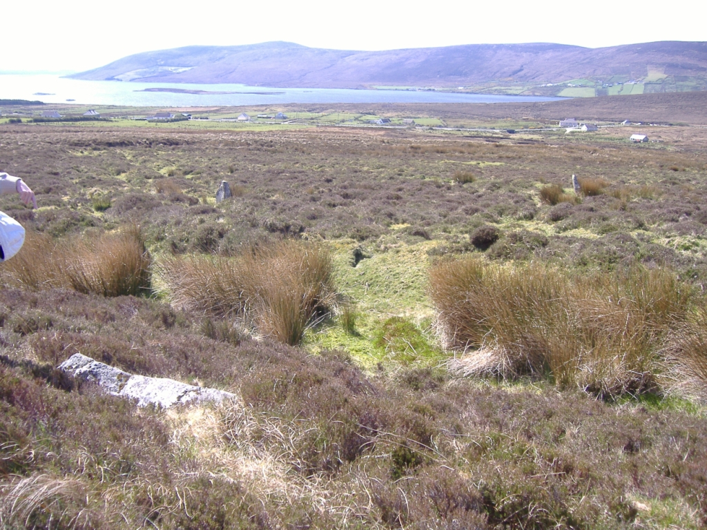 Overlooking Carrowmore Lake, Erris from Faulagh Mountain, Kilcommon, Erris, co. Mayo. A pair of prehistoric standing stones can be seen in the mid ground.